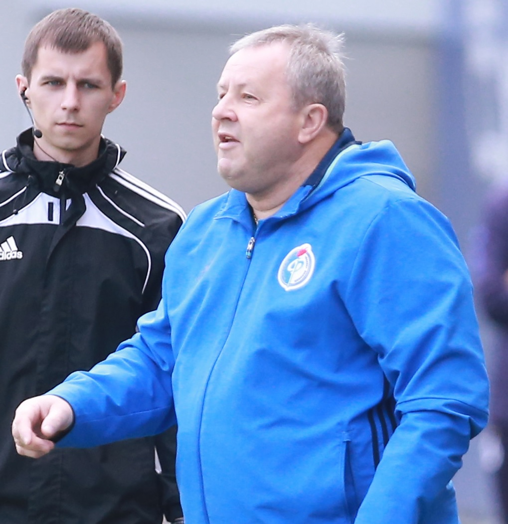 Pavel Gusev coaching FC Fakel Voronezh in a game against FC Dynamo Moscow.